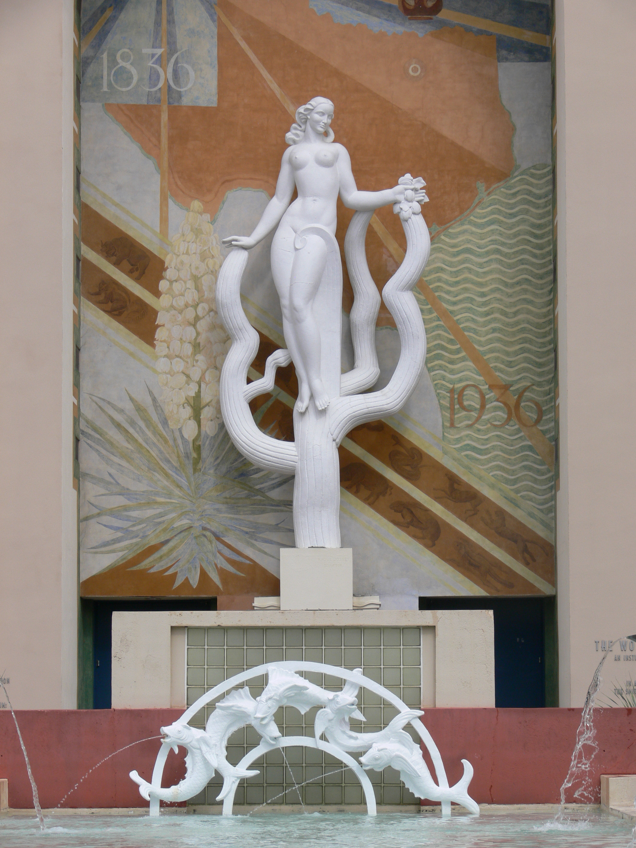 The Women's Museum, Fair Park, Dallas, Texas mural and statue